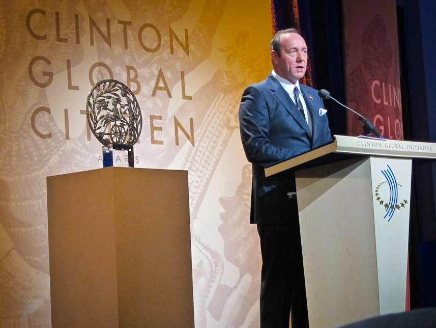 Kevin Spacey at the Clinton Global Citizen Awards, 2010